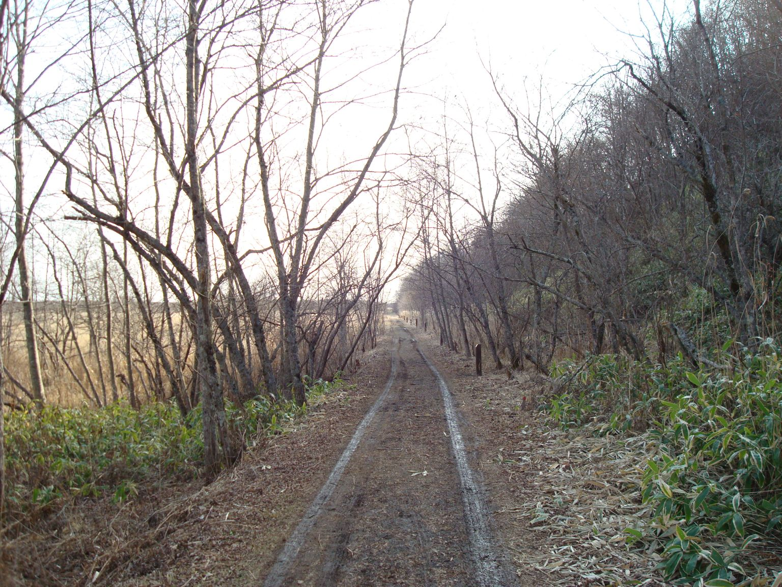 Trail of Tsurui Son-ei Kido (Tsurui Municipal Railway), now used as a footpath, in Kushiro Wetland, Hokkaido, Japan